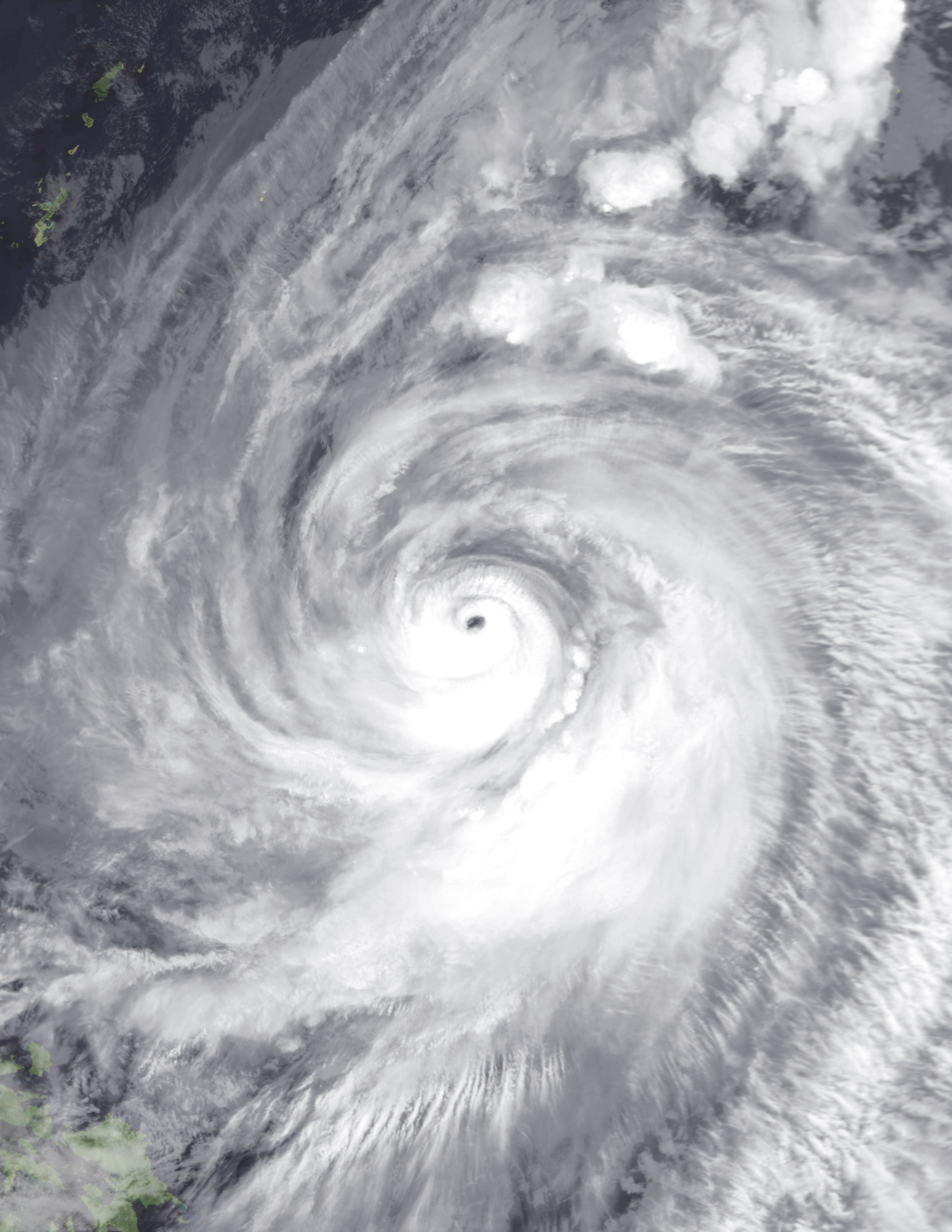 Typhoon Tokage near peak intensity on September 16, 2004.